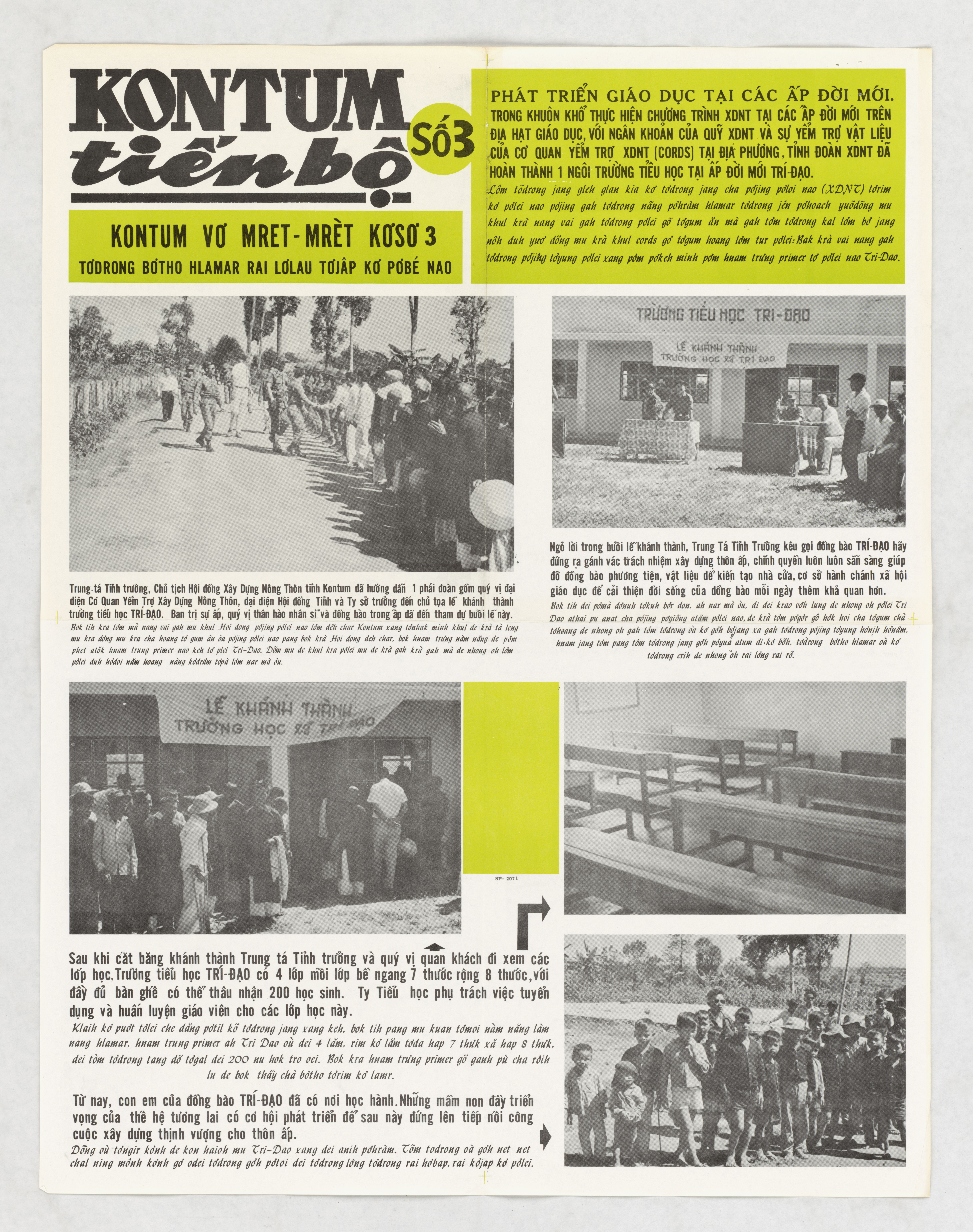 A Psychological Warfare Poster Promoting the U.S.-South Vietnamese Cause During the Vietnam War